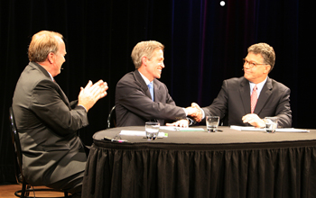 Candidates Dean Barkley, Norm Coleman, and Al Franken shake hands at the close of the debate hosted by Breck School.